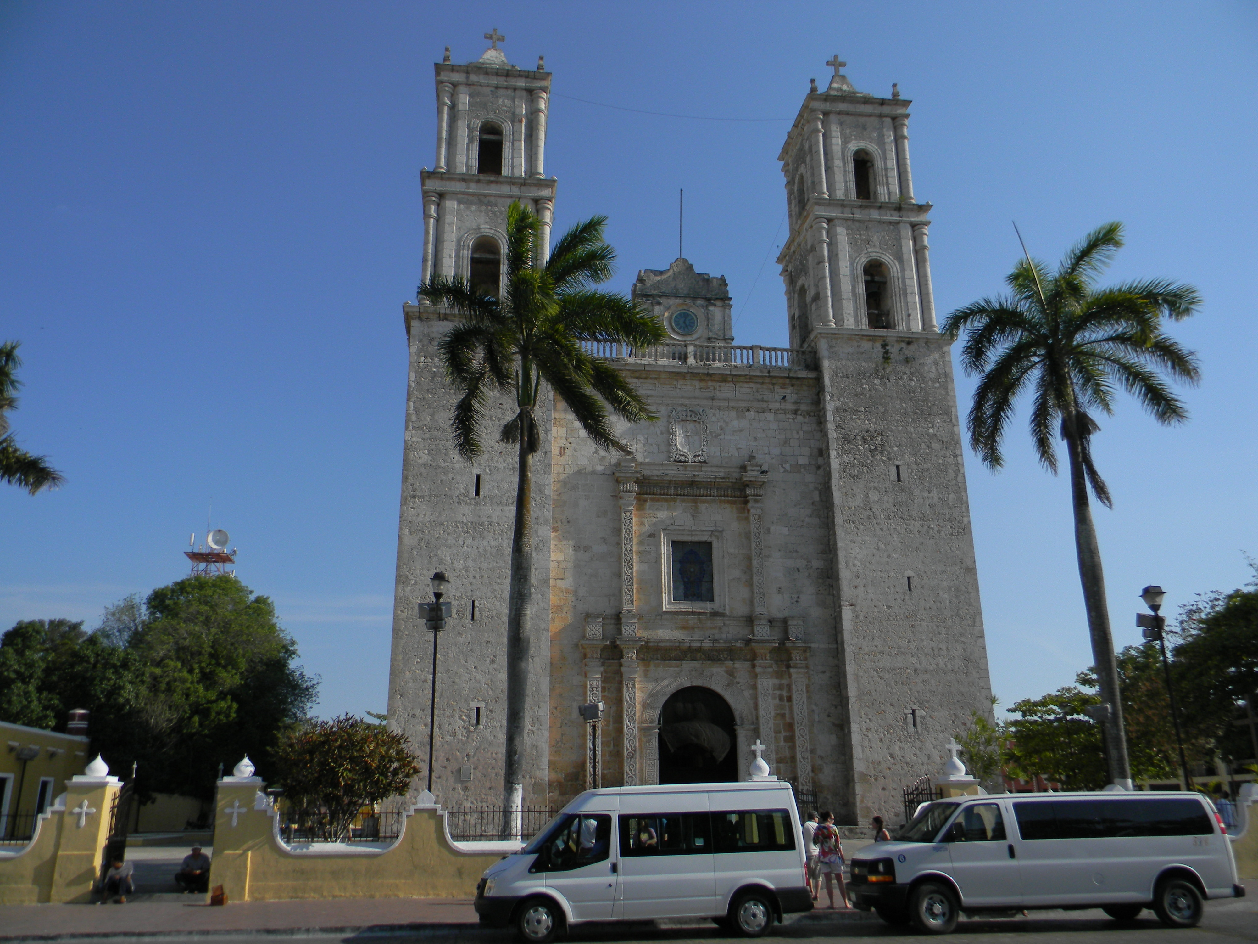 Cathedral of Valladolid, Yucatán, Mexico